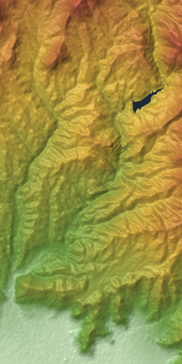 Around Shōsenkyō in Yamanashi Prefecture, Honshu, Japan.